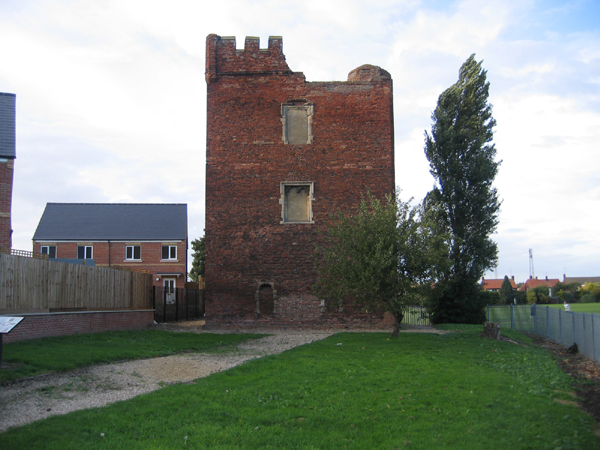 Hussey Tower, Boston, Lincs. Built 1460 by Richard Berryngton JP and Collector of Taxes; owned by the Hussey family 1475–1537.